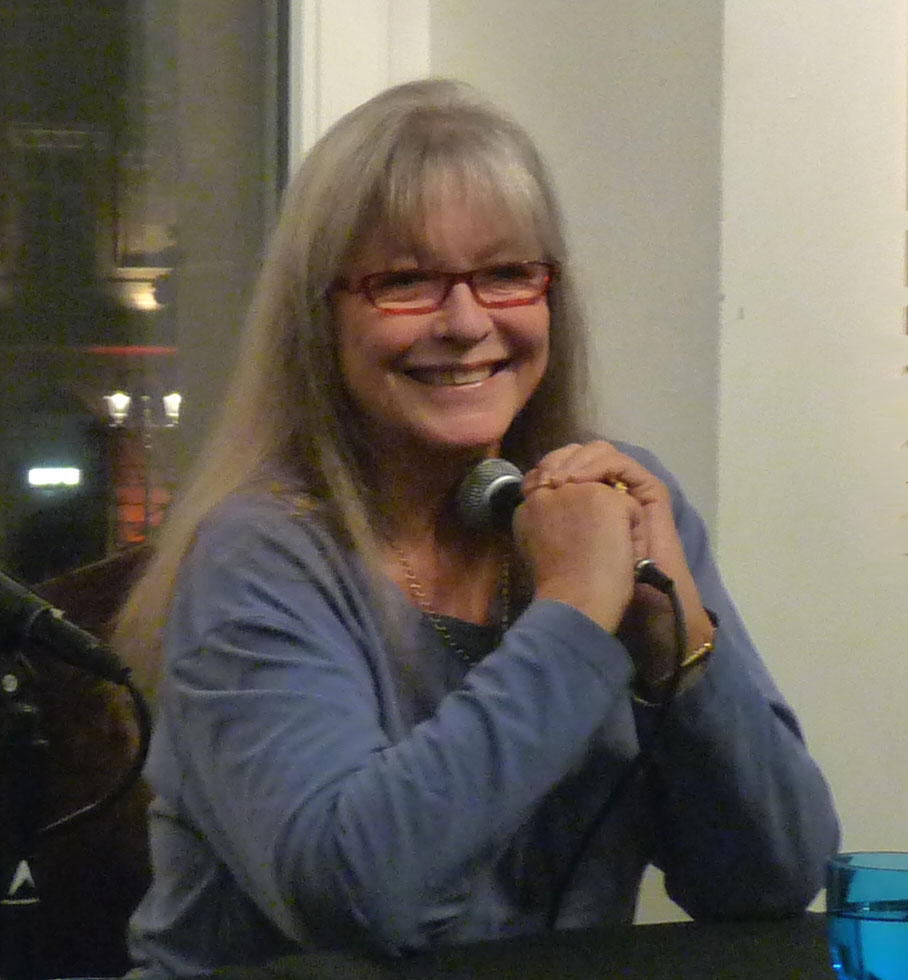 Actress Marina Vlady in Strasbourg